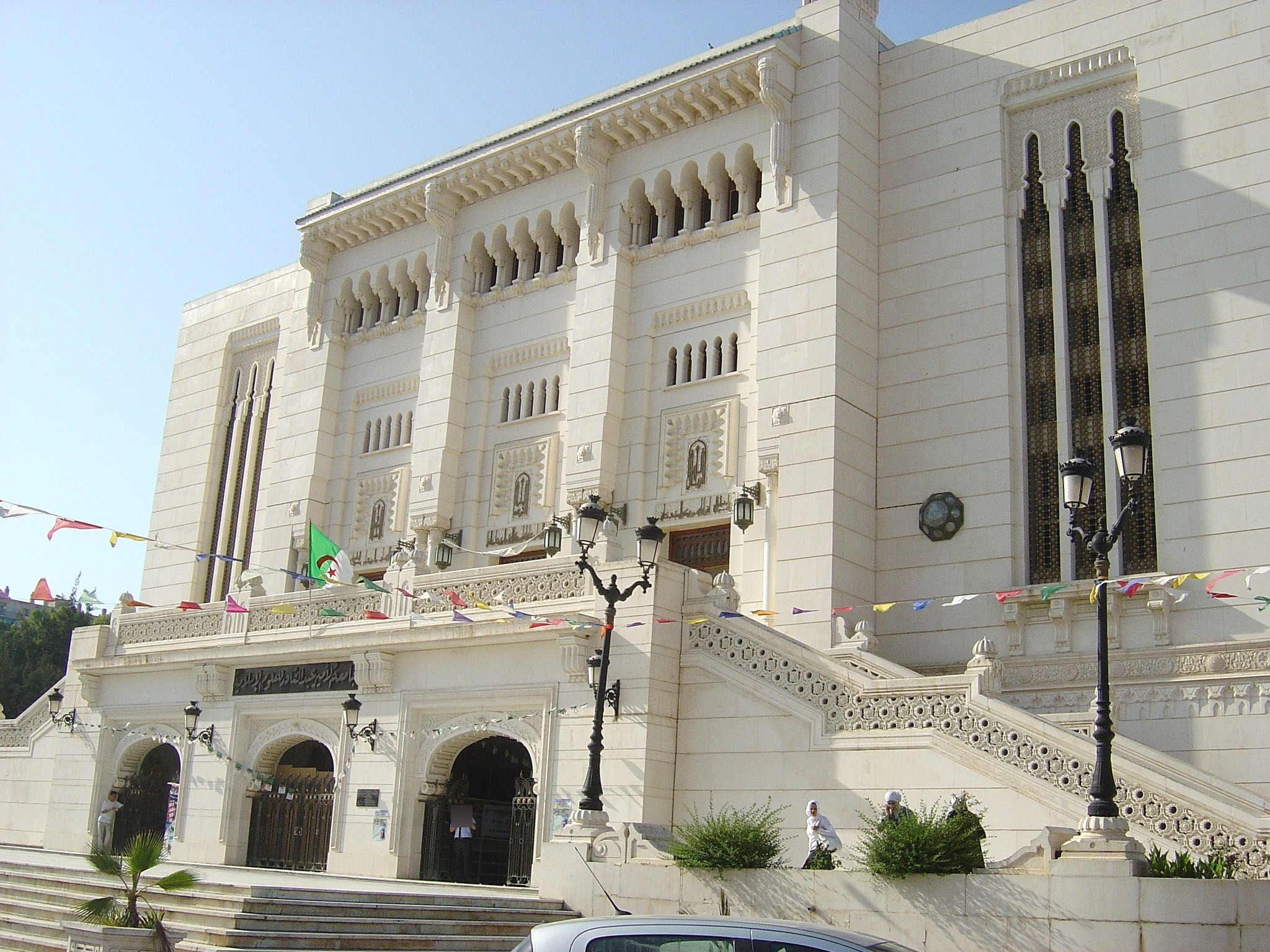 Entrée sud de l'Université islamique Émir Abdelkader (Constantine, Algérie).